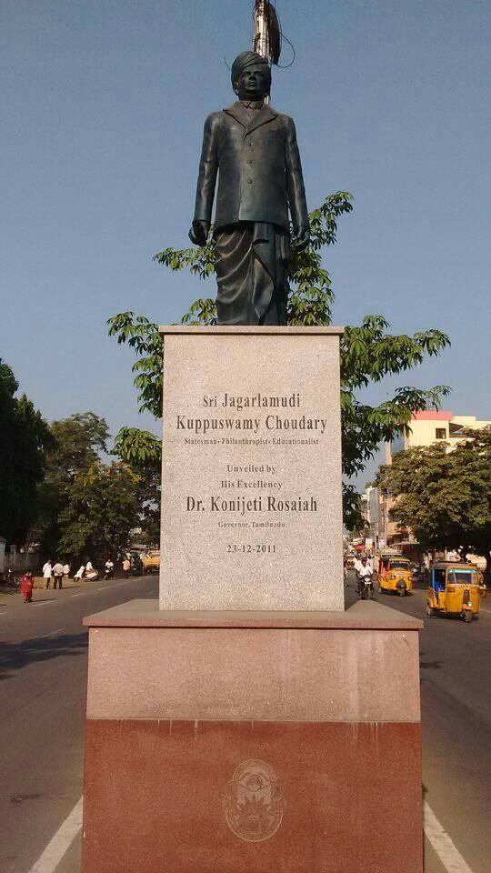 Jagarlamudi Kuppuswamy choudary statue,near JKC college,gujjanagundla,Guntur,Andhra pradesh,India.